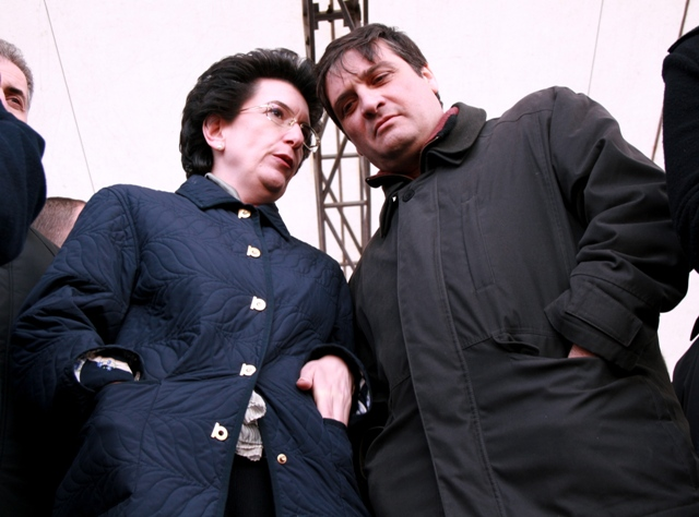 April 10, 2009... Nino Burjanadze and Irakli Batiashvili in front of parliament building